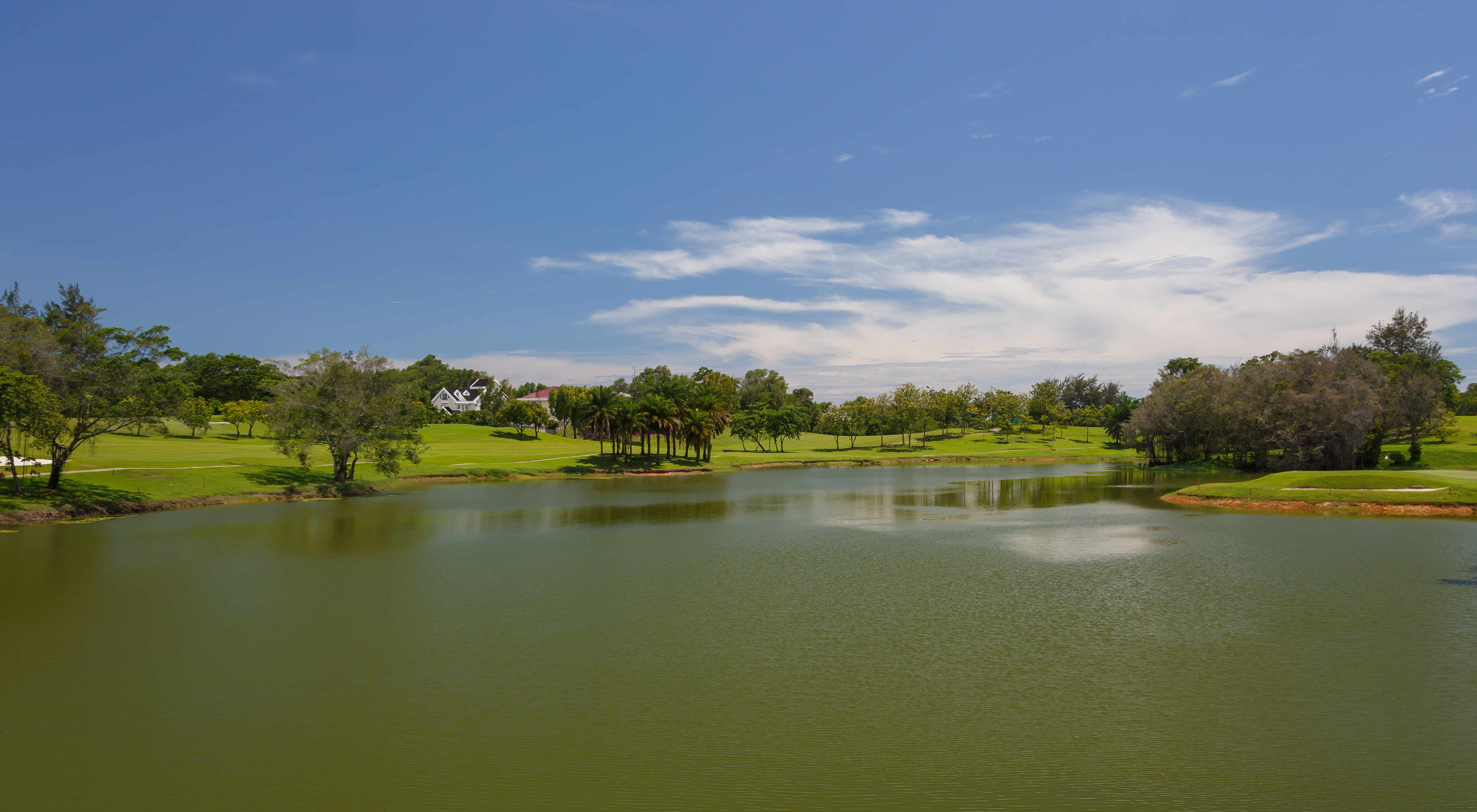 Kota Kinabalu, Sabah: Sabah Golf & Country Club